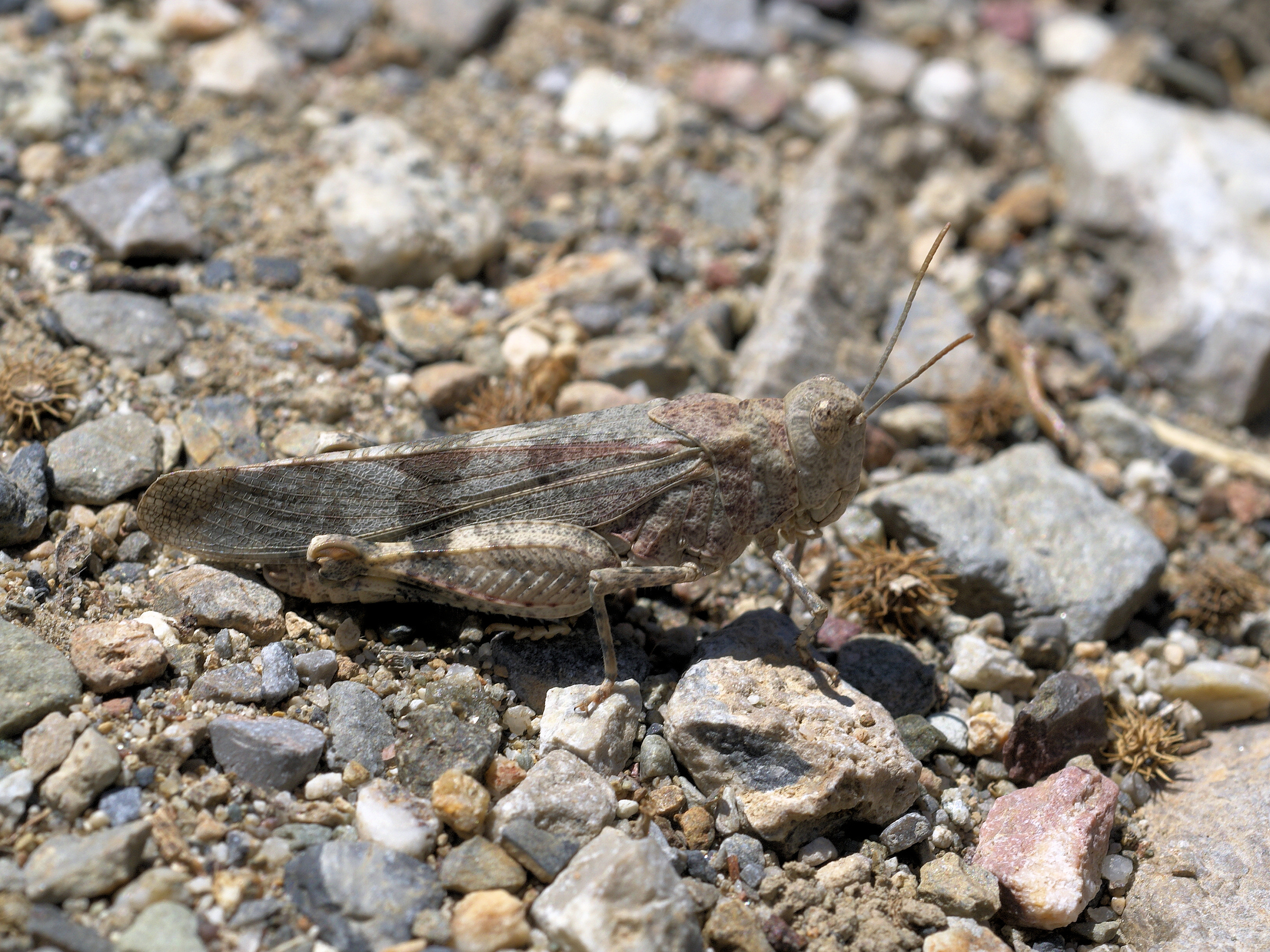 Blue-winged Grasshopper 1 km east of Alàs i Cerc, Catalunya in Spain.